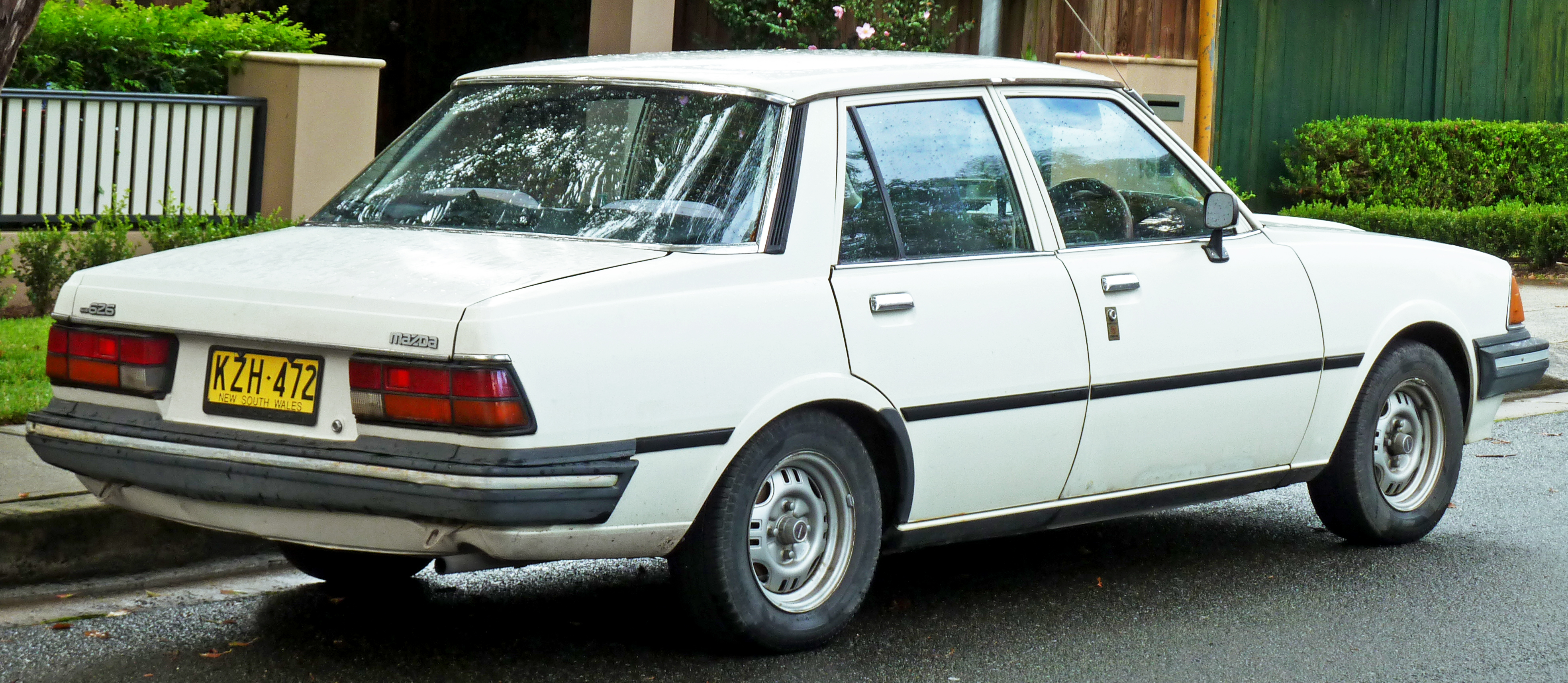 1980 Mazda 626 (CB) sedan. Photographed in Lindfield, New South Wales, Australia.